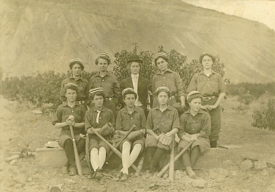 Postcard picture of women's Palisade baseball team of Palisade; "circa 1910" according to Web page, which states: "Original, circa 1910 Real Photo postcard of the Palisade, Colorado Women's Baseball Team. "Palisade" is stiched on the girl's uniforms and "Palisade, Colorado" has been written in pencil on the reverse of the card. Check the mountains in the background! Card is postally unused with an early back"